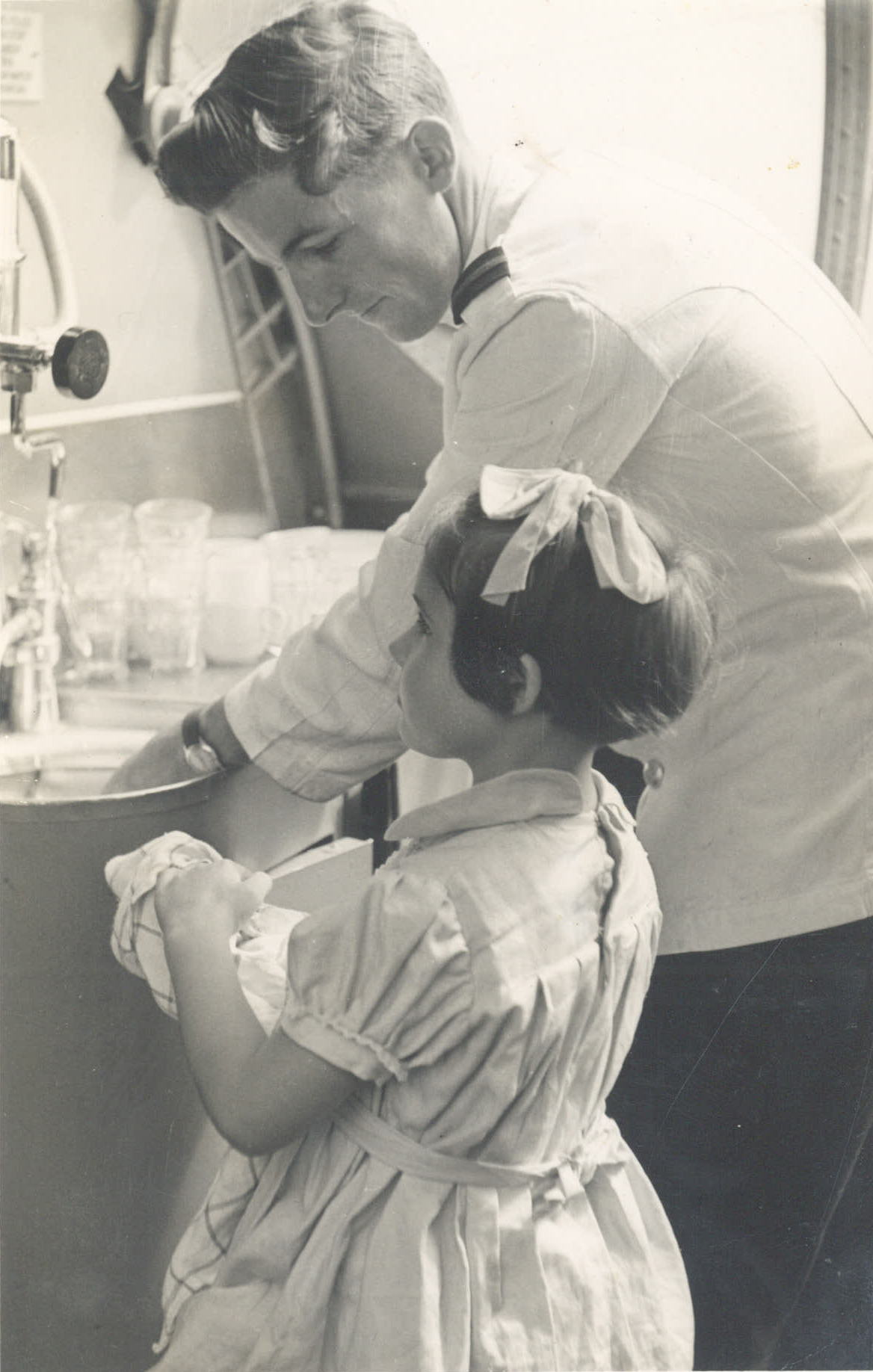 Flight steward Max White at work on board a Qantas Catalina aircraft en route from Suva to Sydney in January 1949, assisted by young passenger Jennifer Grey.